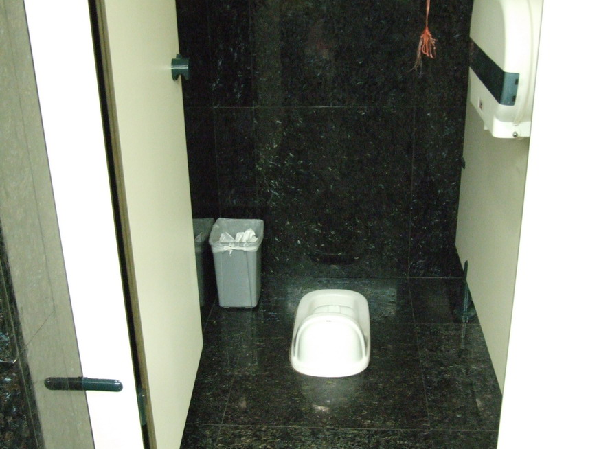 toilet in Beijing (Beijing Capital International Airport)